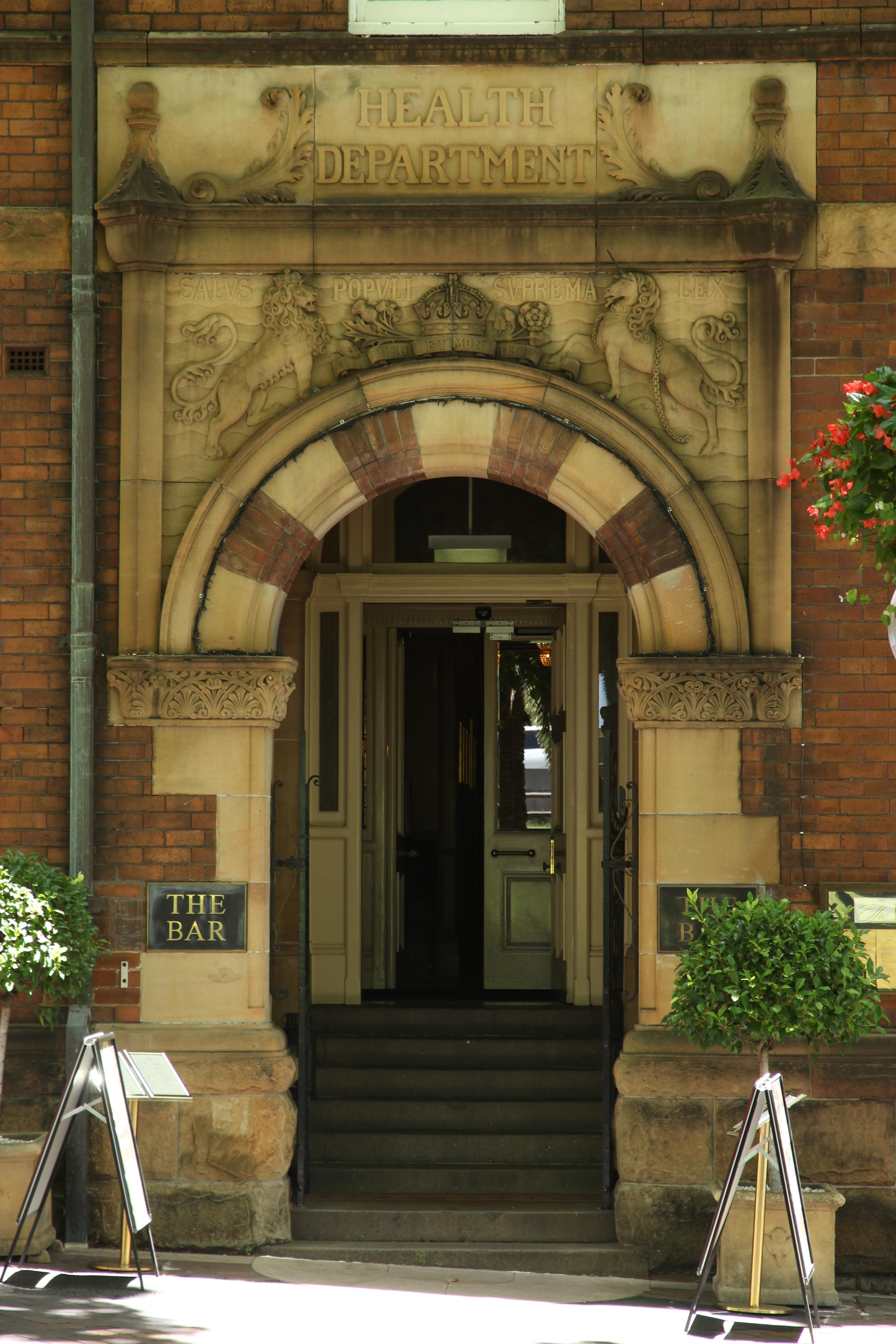 Portico of the former Health Department building, located at 93-97 Macquarie Street, in the Sydney central business district in the City of Sydney, New South Wales, Australia